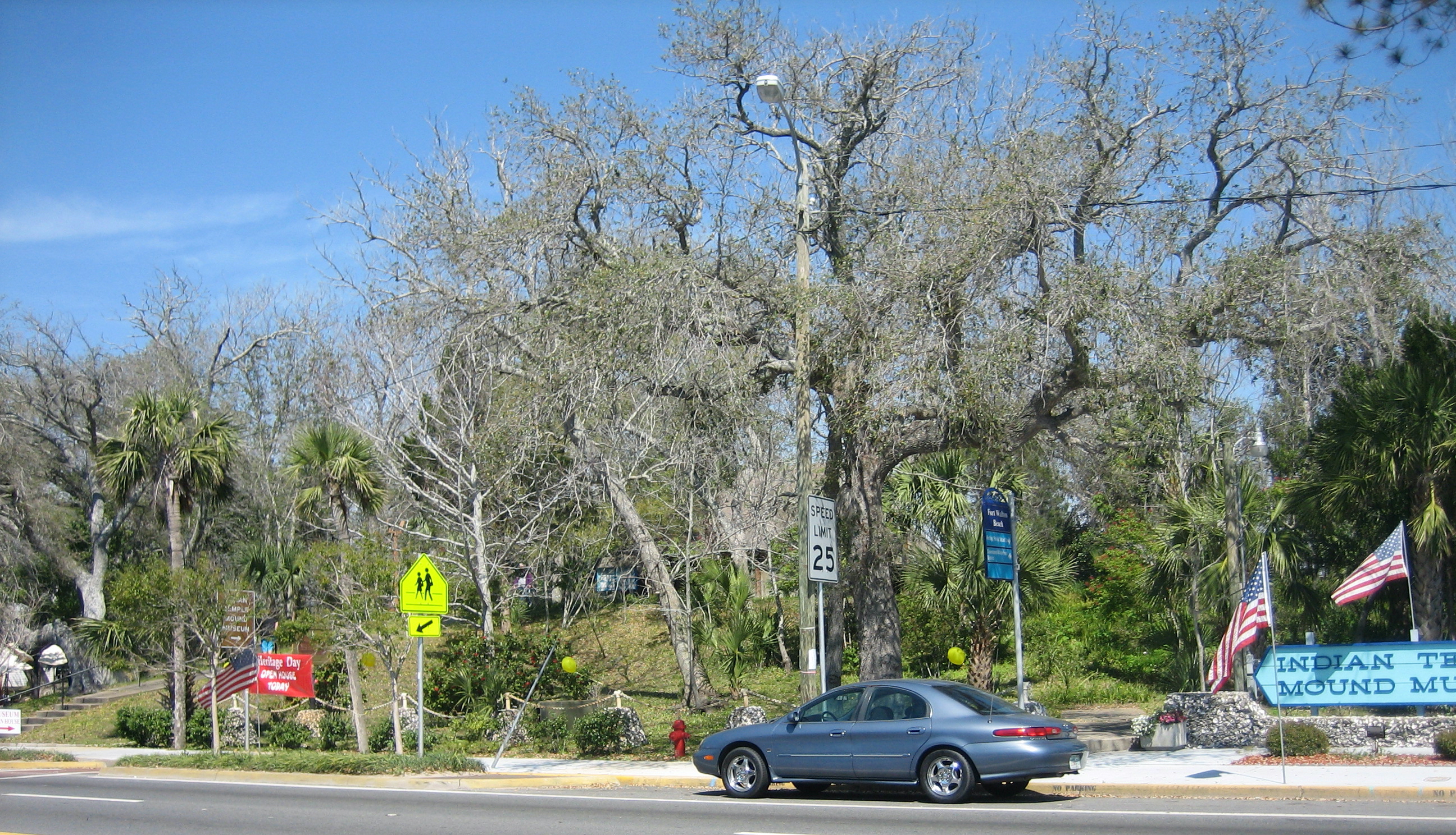 Indian Mound park, Fort Walton Beach, Florida